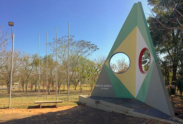 Japanese Immigration Monument (Duartina)